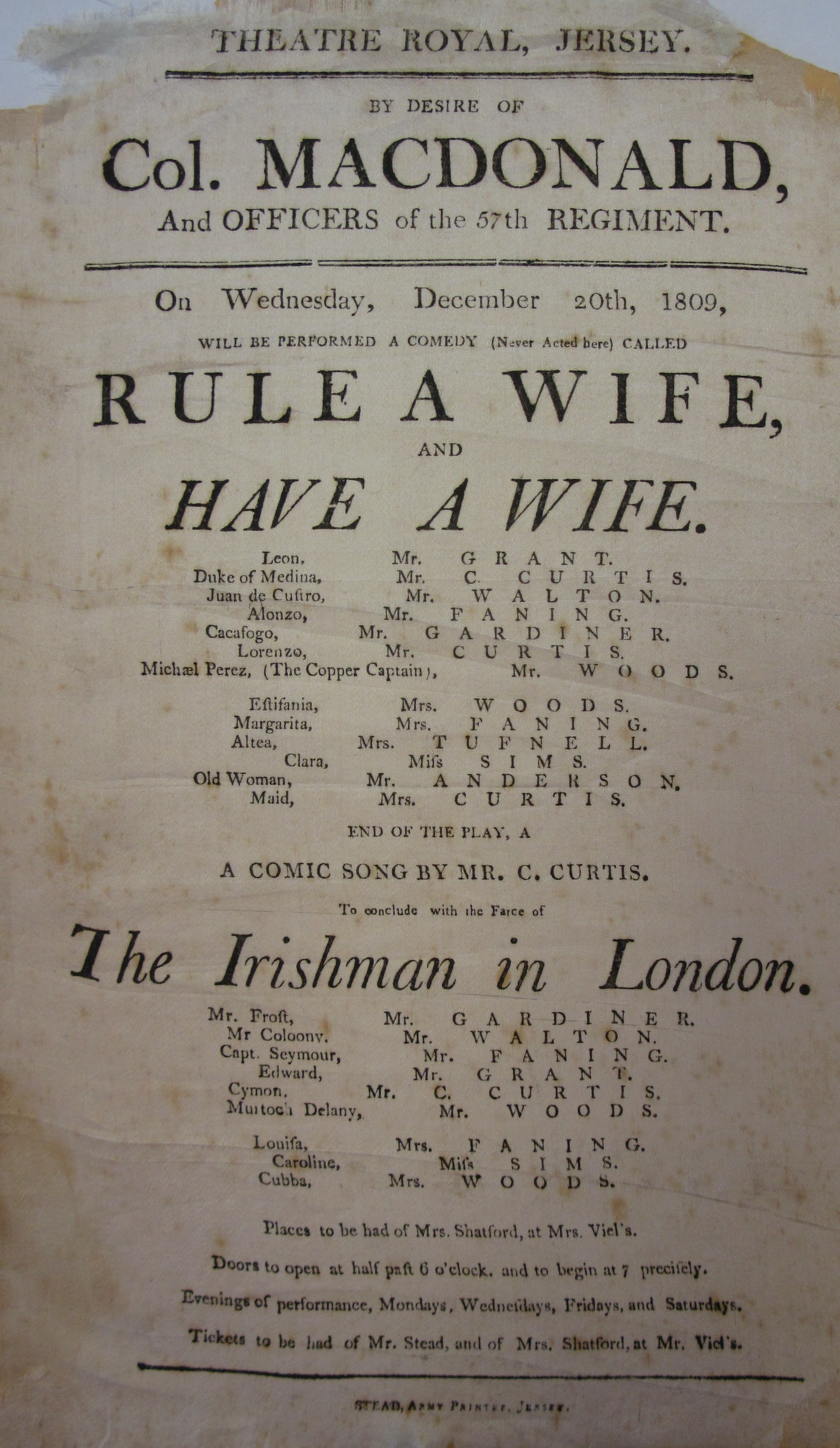 Programme printed on silk for the Theatre Royal, Jersey: 20 December 1809 - Rule a wife; The Irishman in London